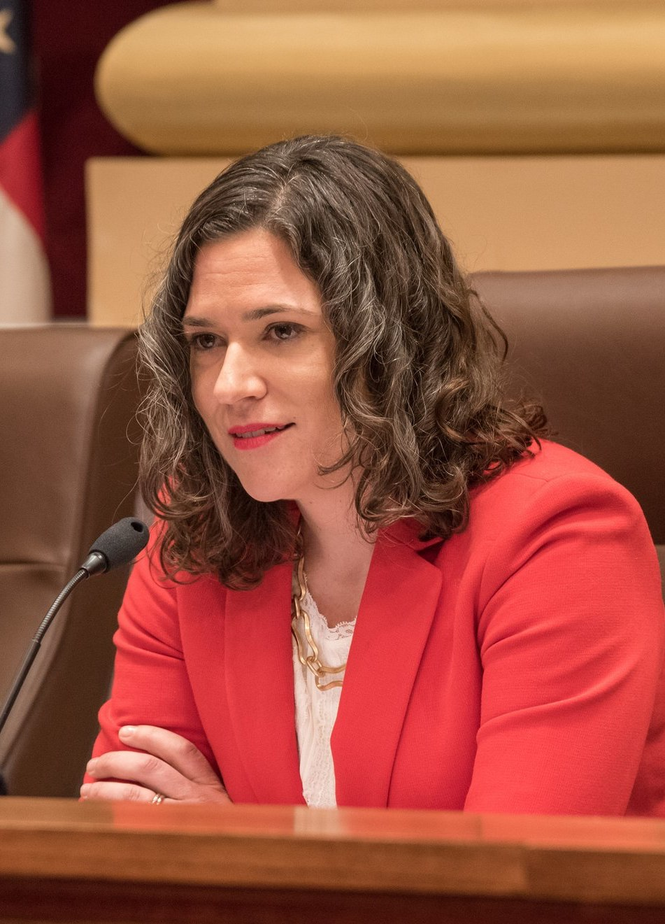 PresidentLisaBender